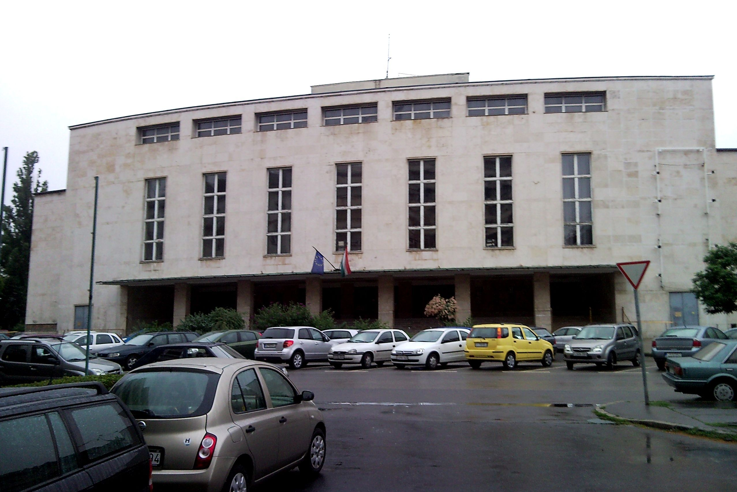 The Erkel Theatre in 2009